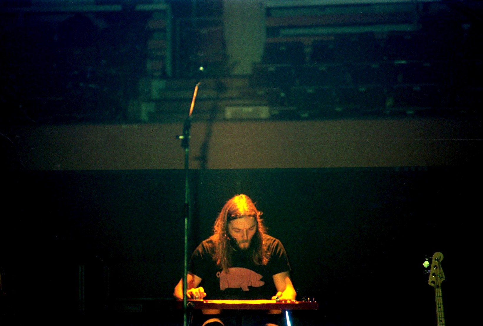 David Gilmour playing lap steel guitar with Pink Floyd, Festhalle, Frankfurt, Germany 26 January, 1977